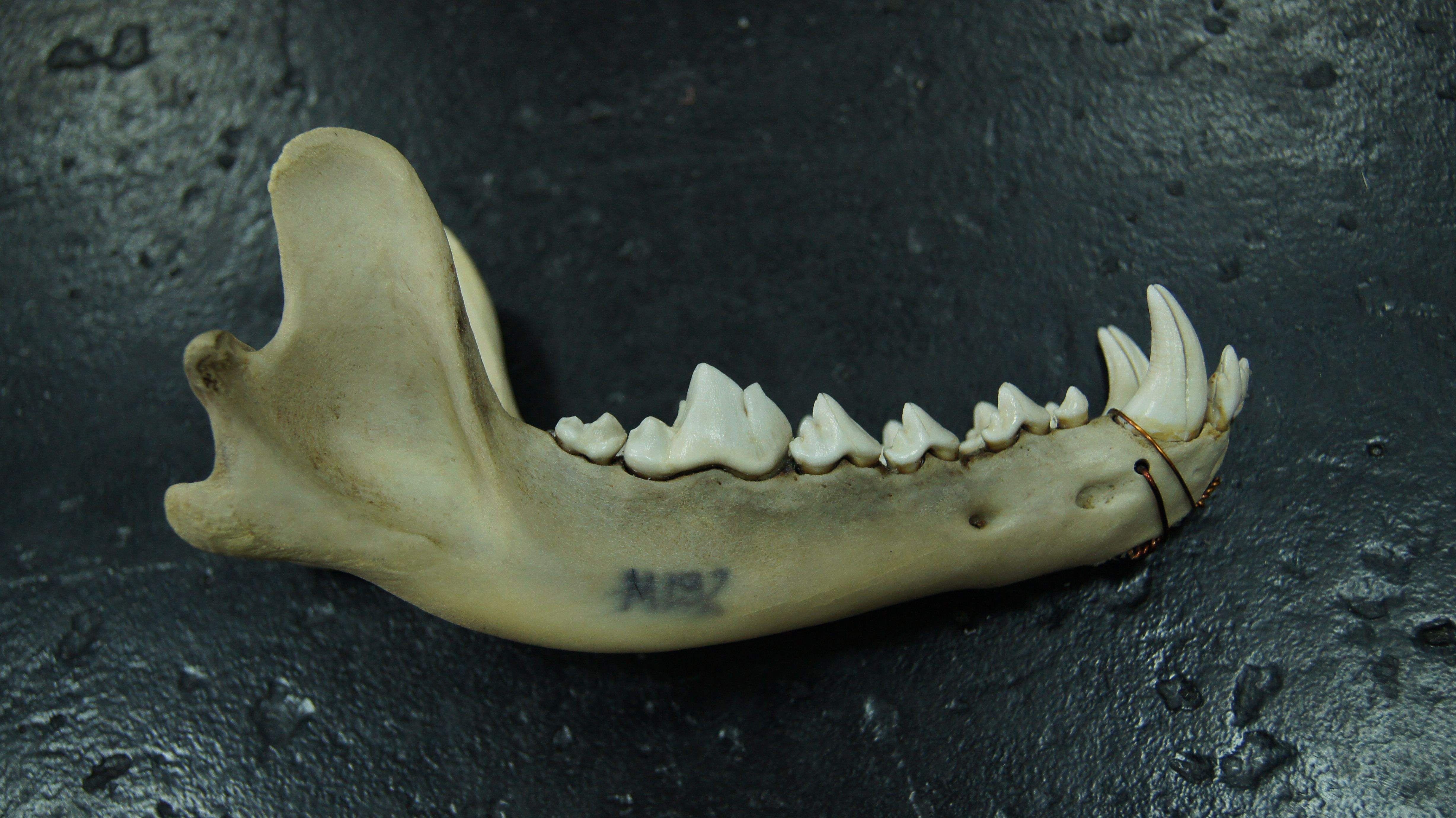 Canis lupus lower jaw from the collection of Moscow State University Department of Biology